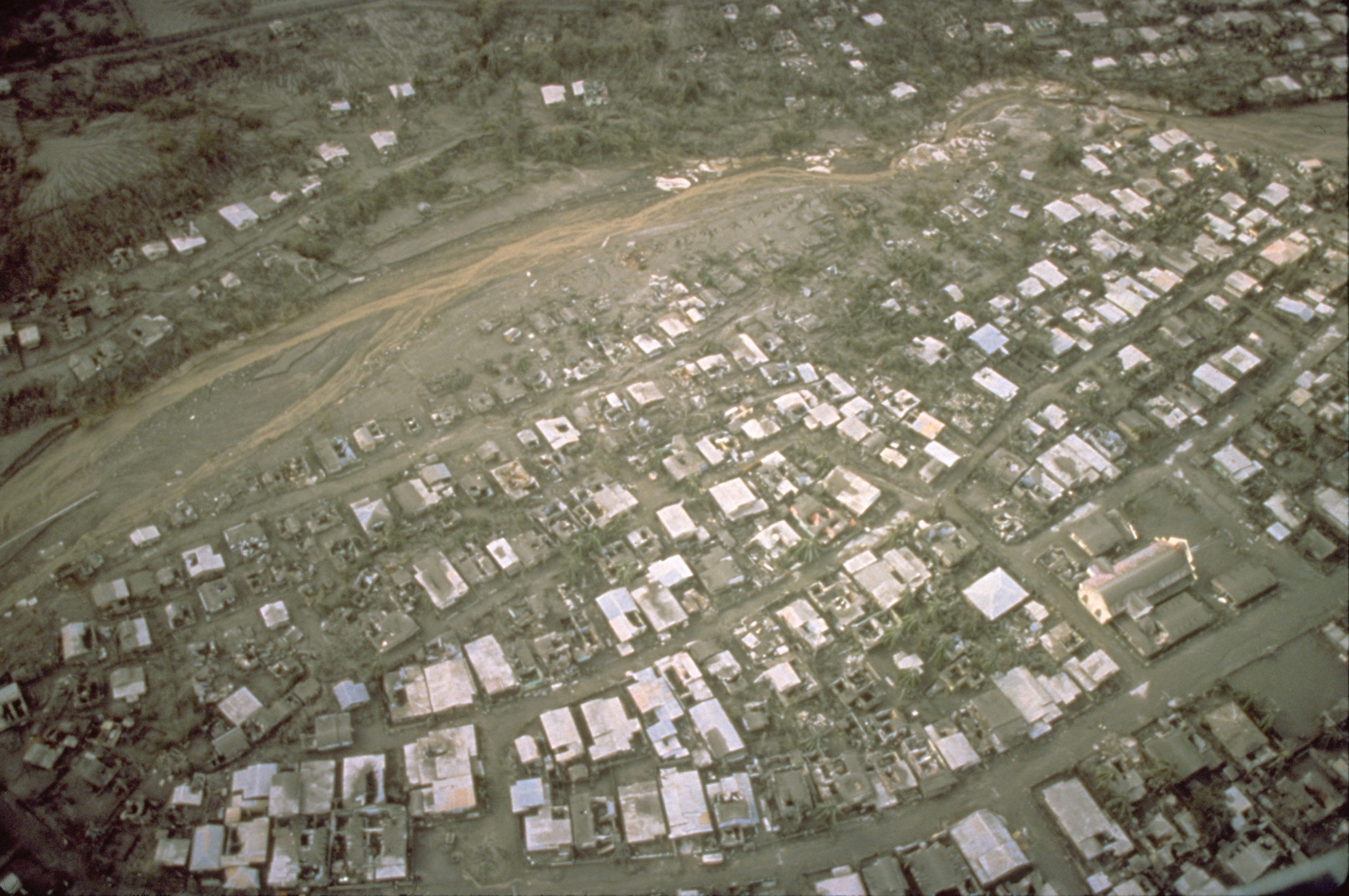 Aerial view of lahar damage of 15 June, 1991, and damage to roofs from tephra fall in Sapangbato, along Abacon River south of Clark Air Base.U.S. Geological Survey Photograph taken on June 22, 1991, by Richard P. Hoblitt.